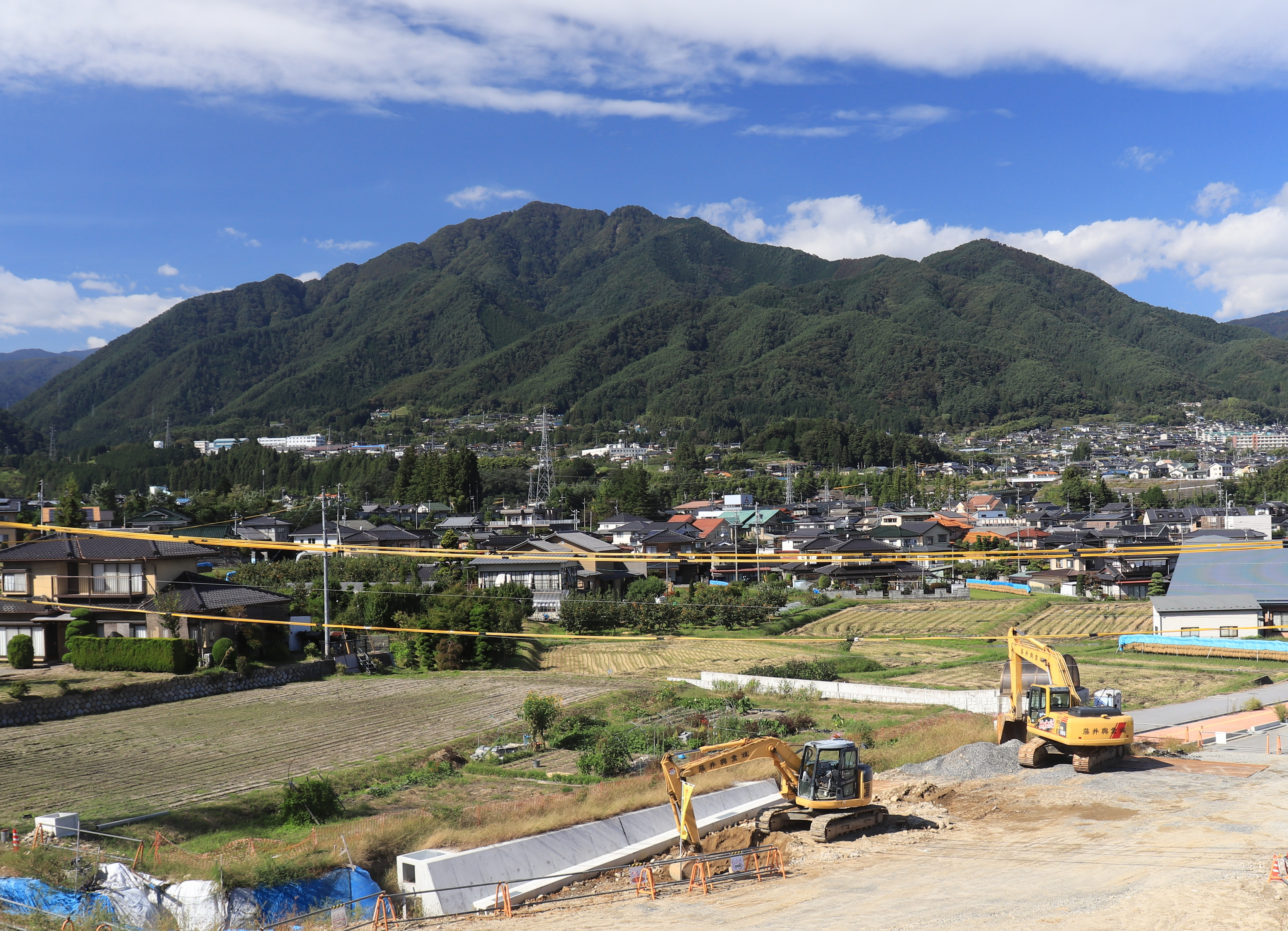 Mount Kazakoshi and Mount Kokuzo seen from south-eastern foot of the mountain in Iida, Nagano Prefecture, Japan.